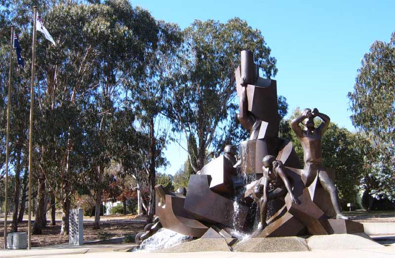 The Royal Australian Navy Memorial commemorates the service of members of the Royal Australian Navy, and is mid-way along ANZAC Parade, the principal ceremonial and memorial avenue in Canberra, the national capital city of Australia. The stylised bronze shows sailors at sea, with small walls either side displaying the Battle honours of the RAN.